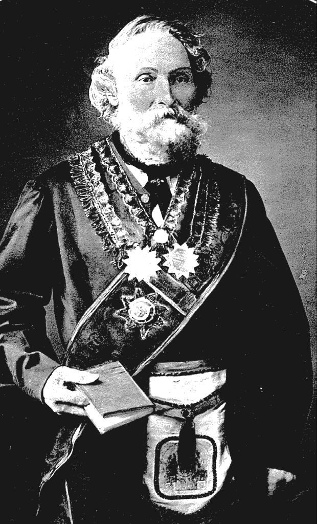 James Henry Marriott (1799-1886) was a playhouse manager, optician and engraver in Wellington, New Zealand. He was the father of Alice Marriott, an actress and theatre manager in London, England.